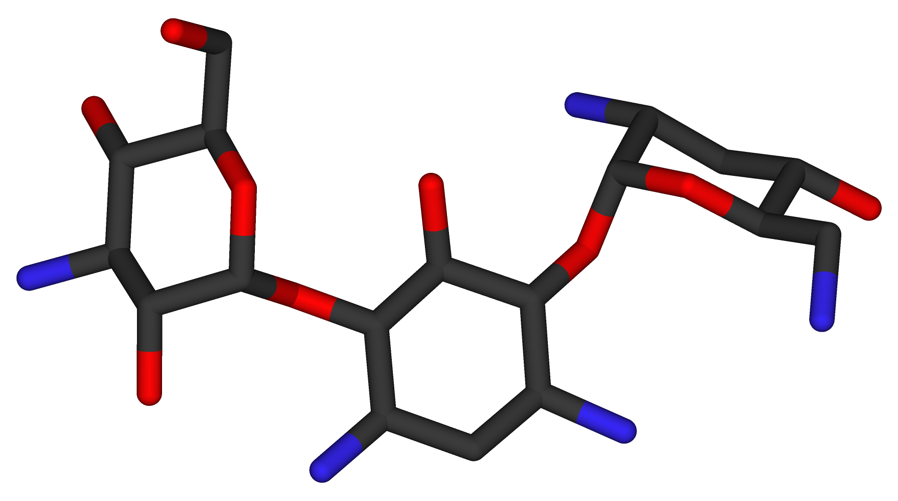 Stick model of tobramycin, hydrogen atoms omitted for clarity. Created using PyMOL, Accelrys DS Visualizer Pro 1.7, and GIMP. Optimized with OptiPNG.